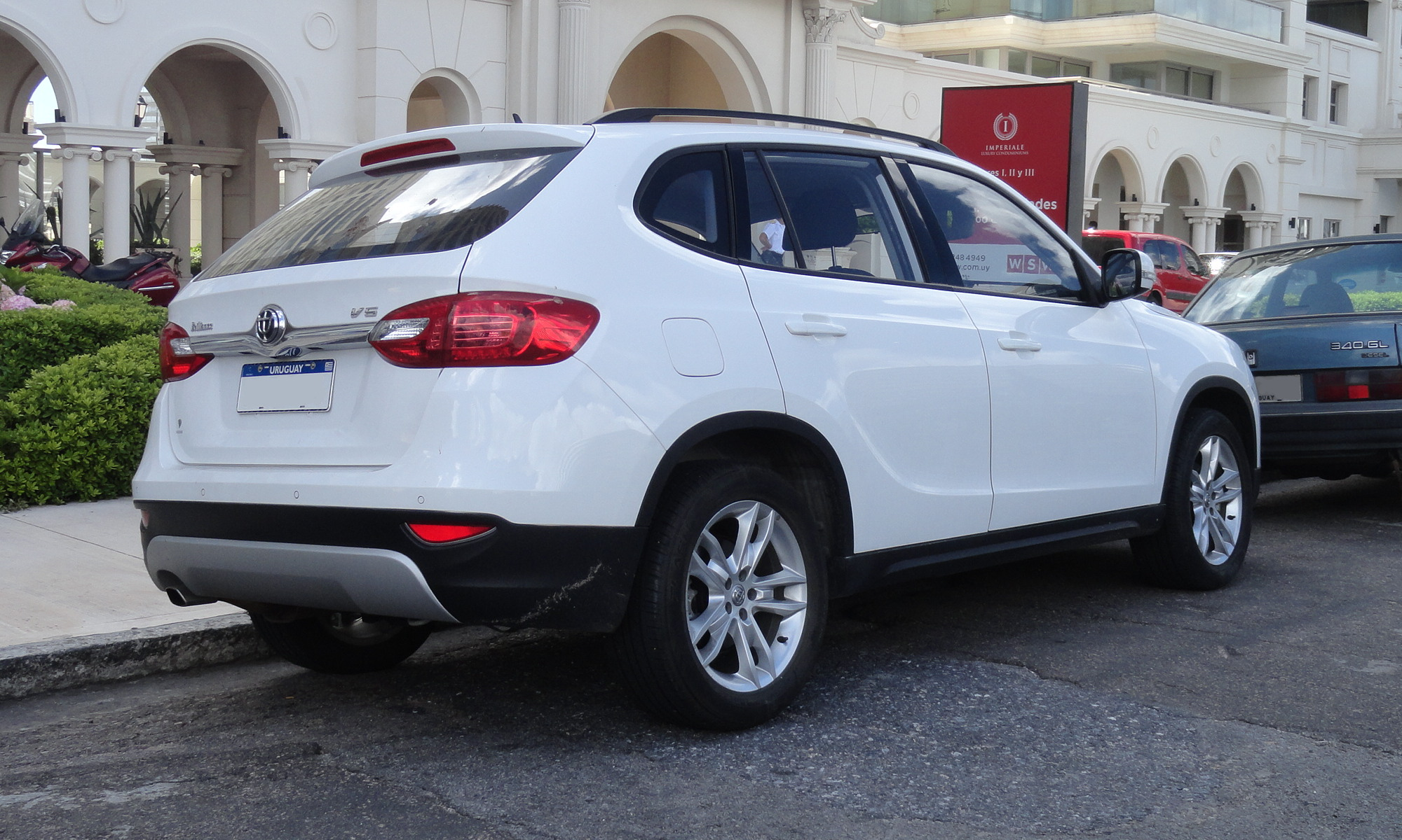 Brilliance V5 photographed in Punta del Este (Uruguay)